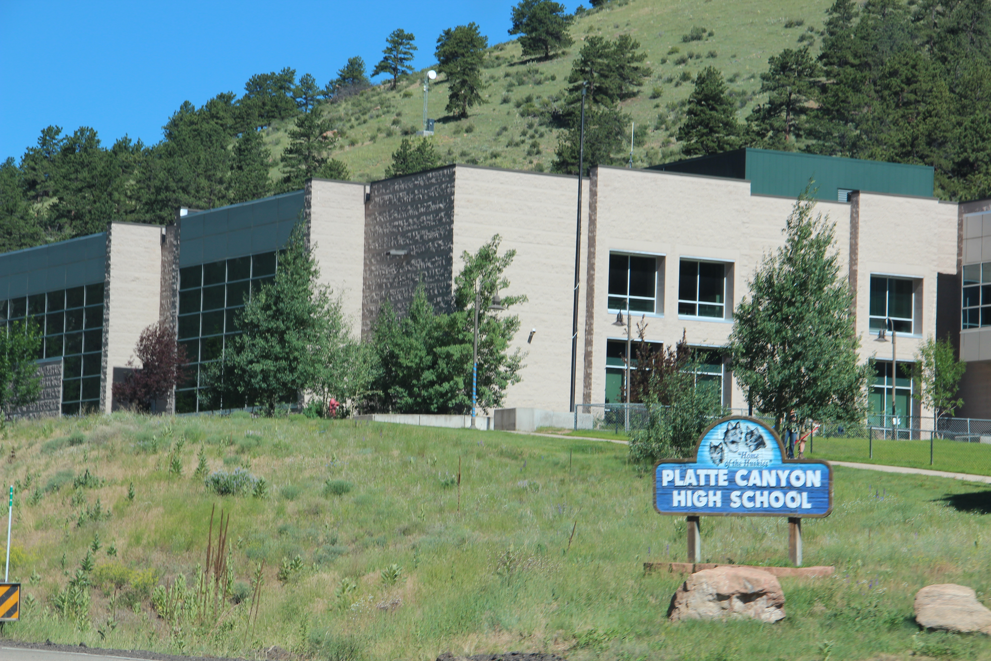 Platte Canyon High School viewed from U.S. Route 285